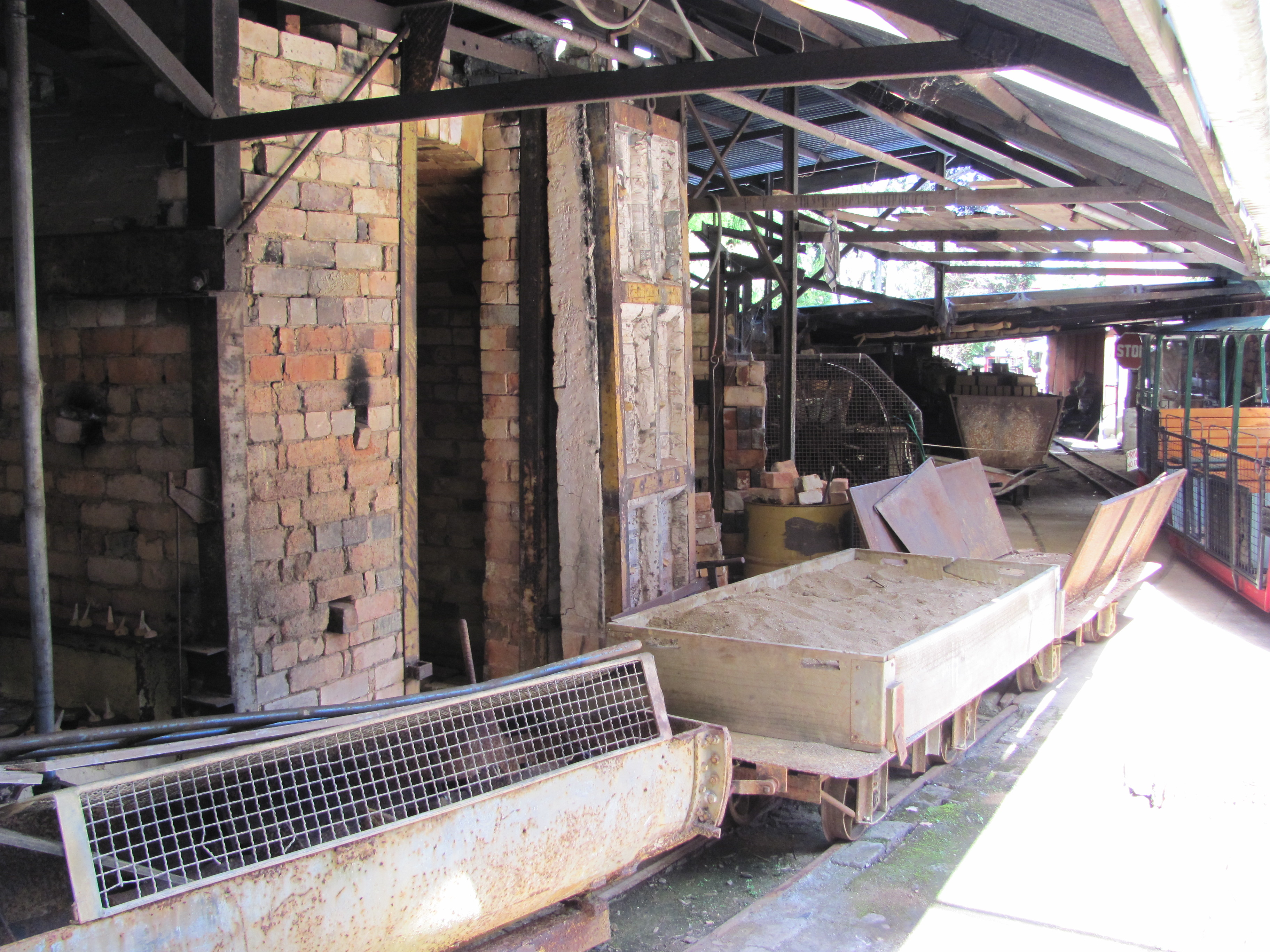 Goods wagon of DCR